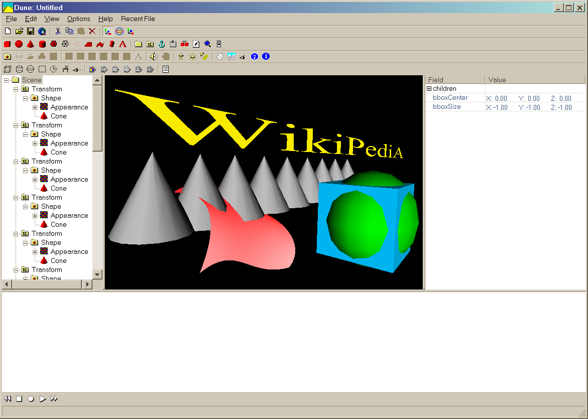 Screendump of the 'White_dune' VRML/X3D editor